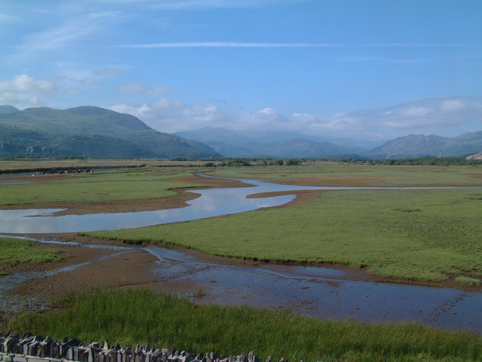 View inland from the Cob.